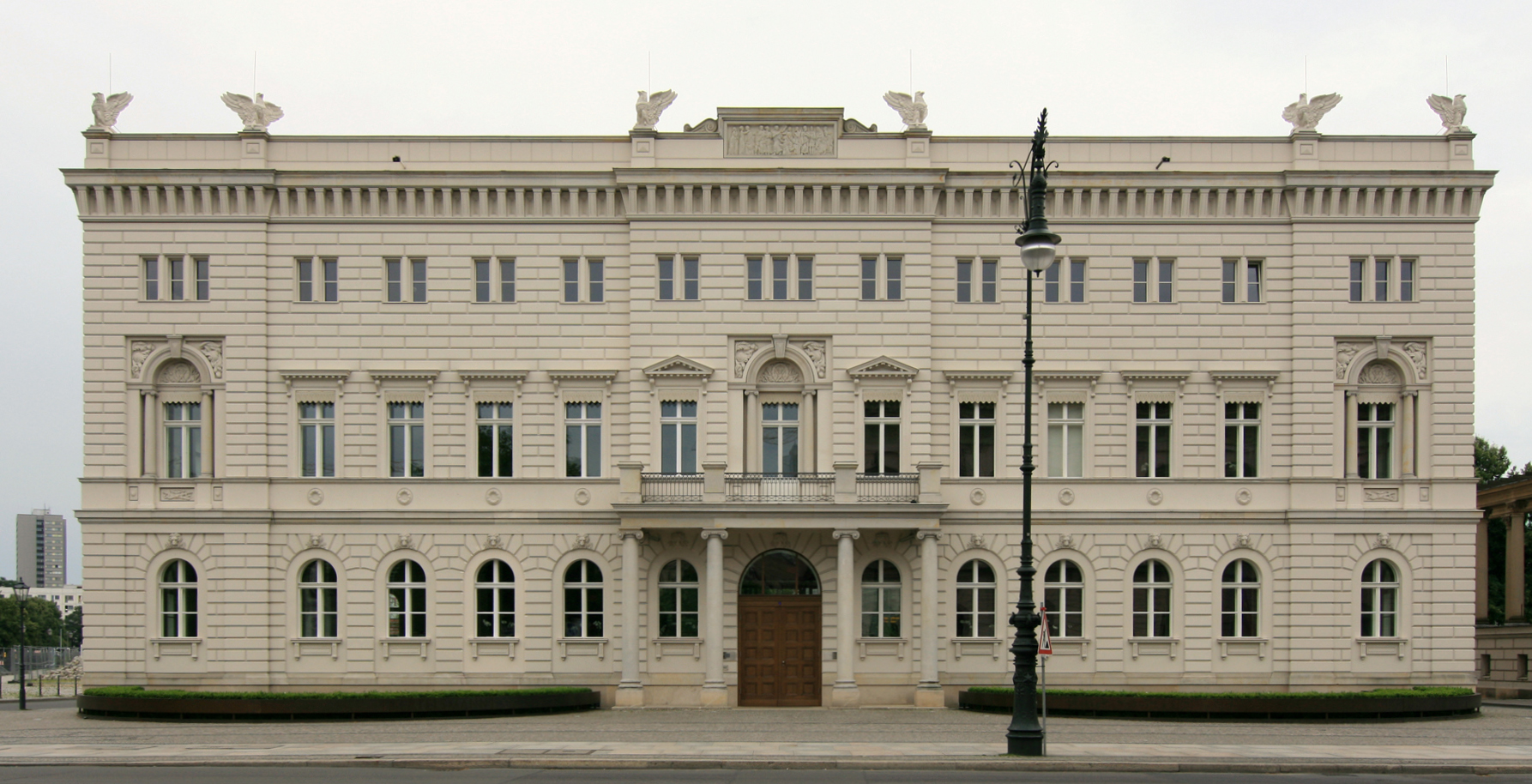 Kommandantenhaus, Berlin.